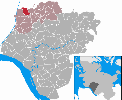 This map shows the area of the municipality Besdorf in the Kreis (district) Steinburg, Schleswig-Holstein, Germany.